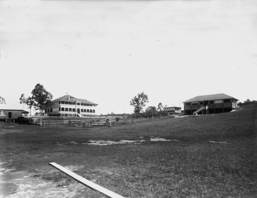 Buildings and grounds of Anglican Church Grammar School in 1920's.